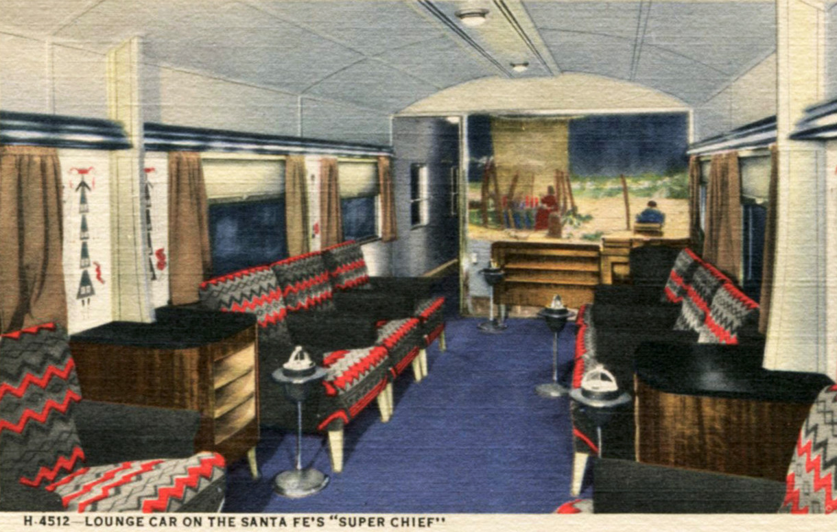 Postcard photo of the lounge car on the Santa Fe Railroad's "Super Chief".